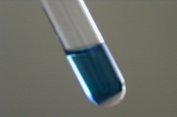 Tetrachlorocobaltic acid made from waste cobalt compounds (ascorbic acid is visible on the bottom)